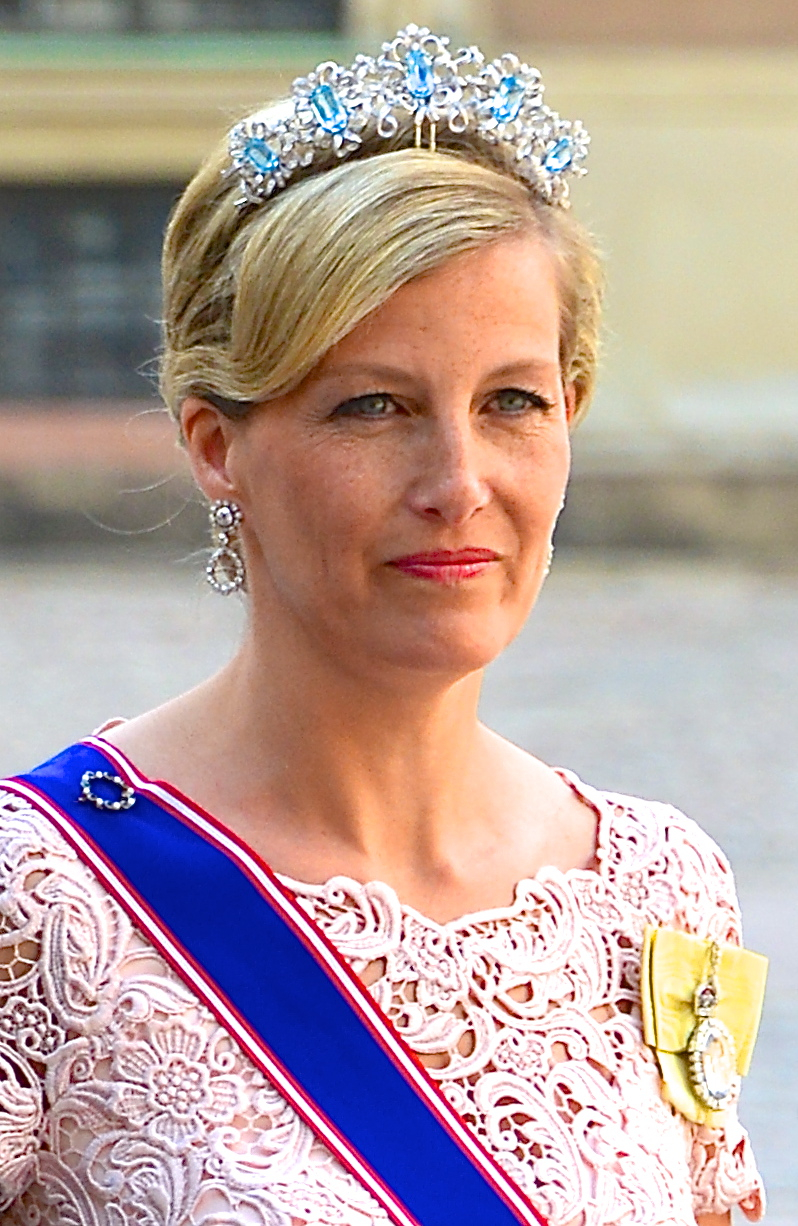 Sophie, Countess of Wessex on the way to the castle church at the Royal Palace in Stockholm before the wedding between Princess Madeleine and Christopher O'Neill June 8, 2013.